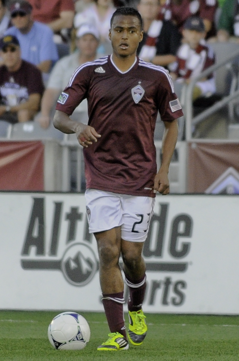 Game day photos taken at a MLS Colorado Rapids game on 4/1/12 by Ed Clemente Photography